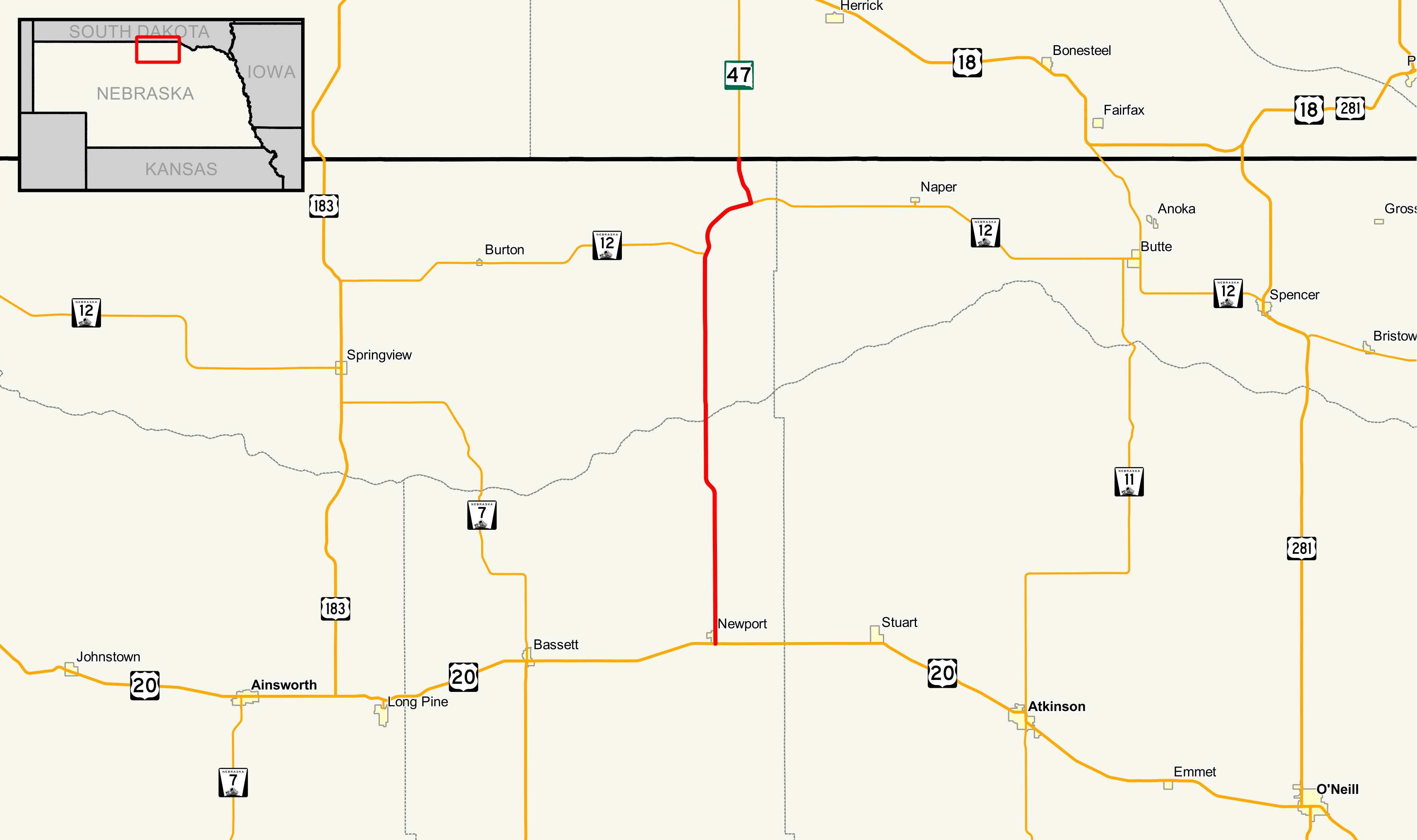 Map of Nebraska Highway 137 Data Sources: Nebraska Highways - - Dec 2016 Nebraska County Boundaries - - Dec 2016 Nebraska City Boundaries - - Dec 2016 This PNG graphic was created with QGIS